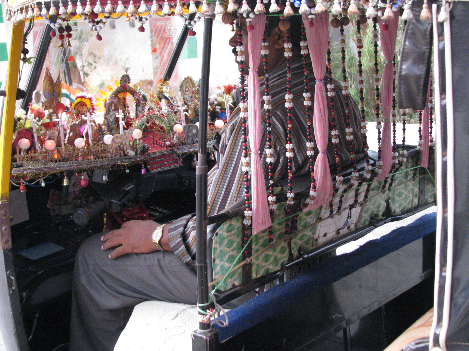 Captured from Biju patnaik Airport in Bhuvaneshwar. This media file is uploaded with Malayalam loves Wikimedia event.